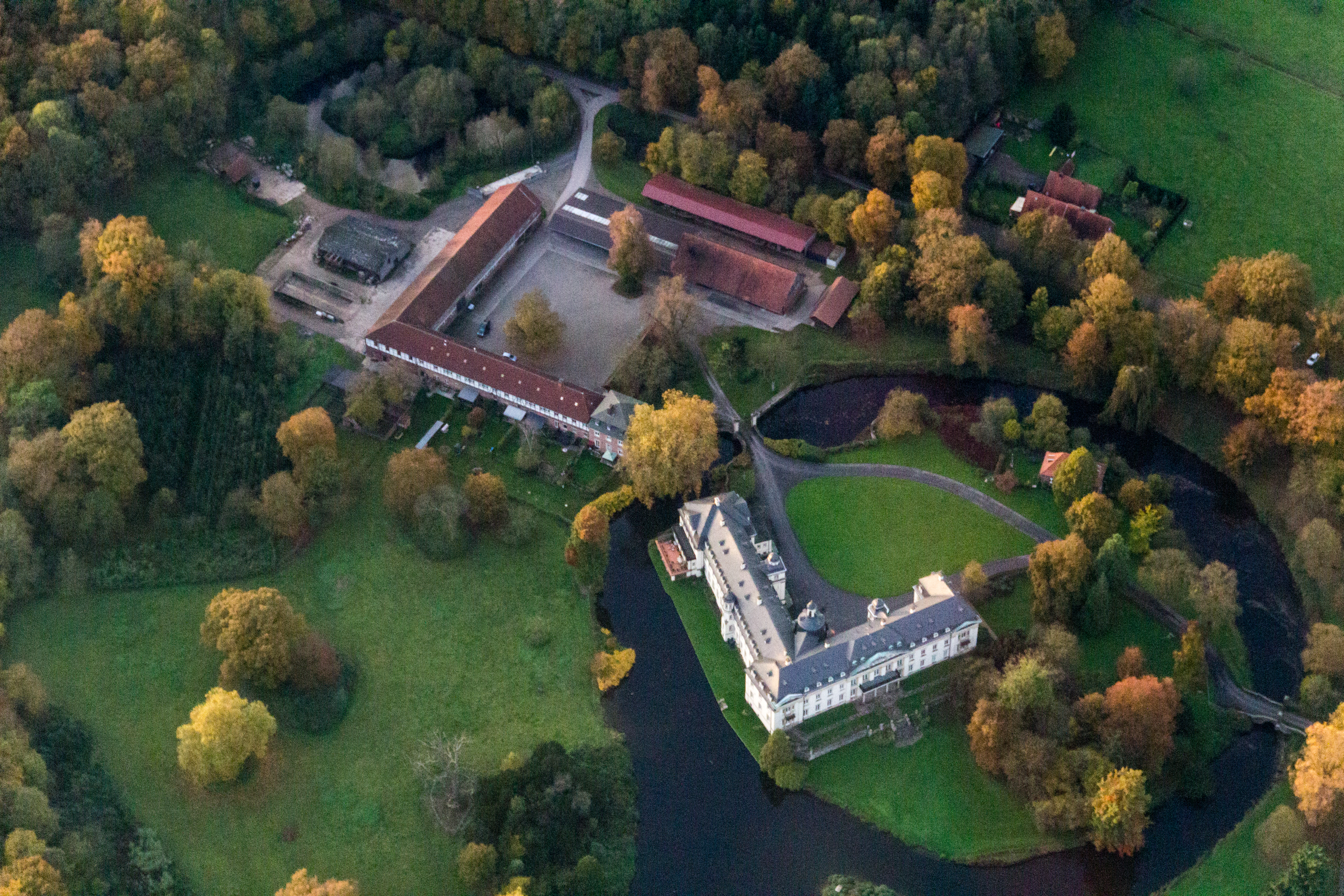 Varlar Castle, Osterwick, Rosendahl, North Rhine-Westphalia, Germany